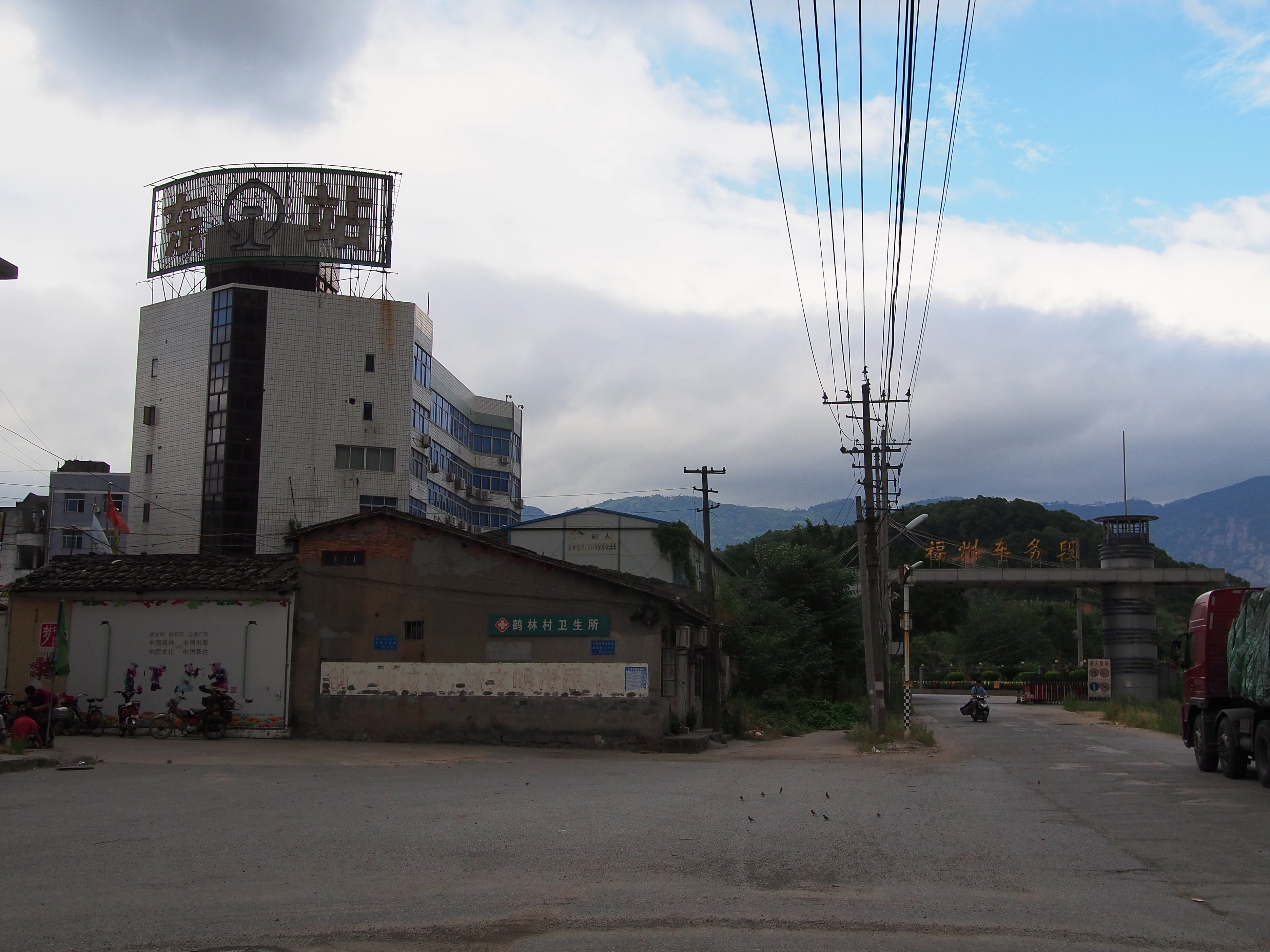 福州东站 - Fuzhou East Railway Station - 2014.09